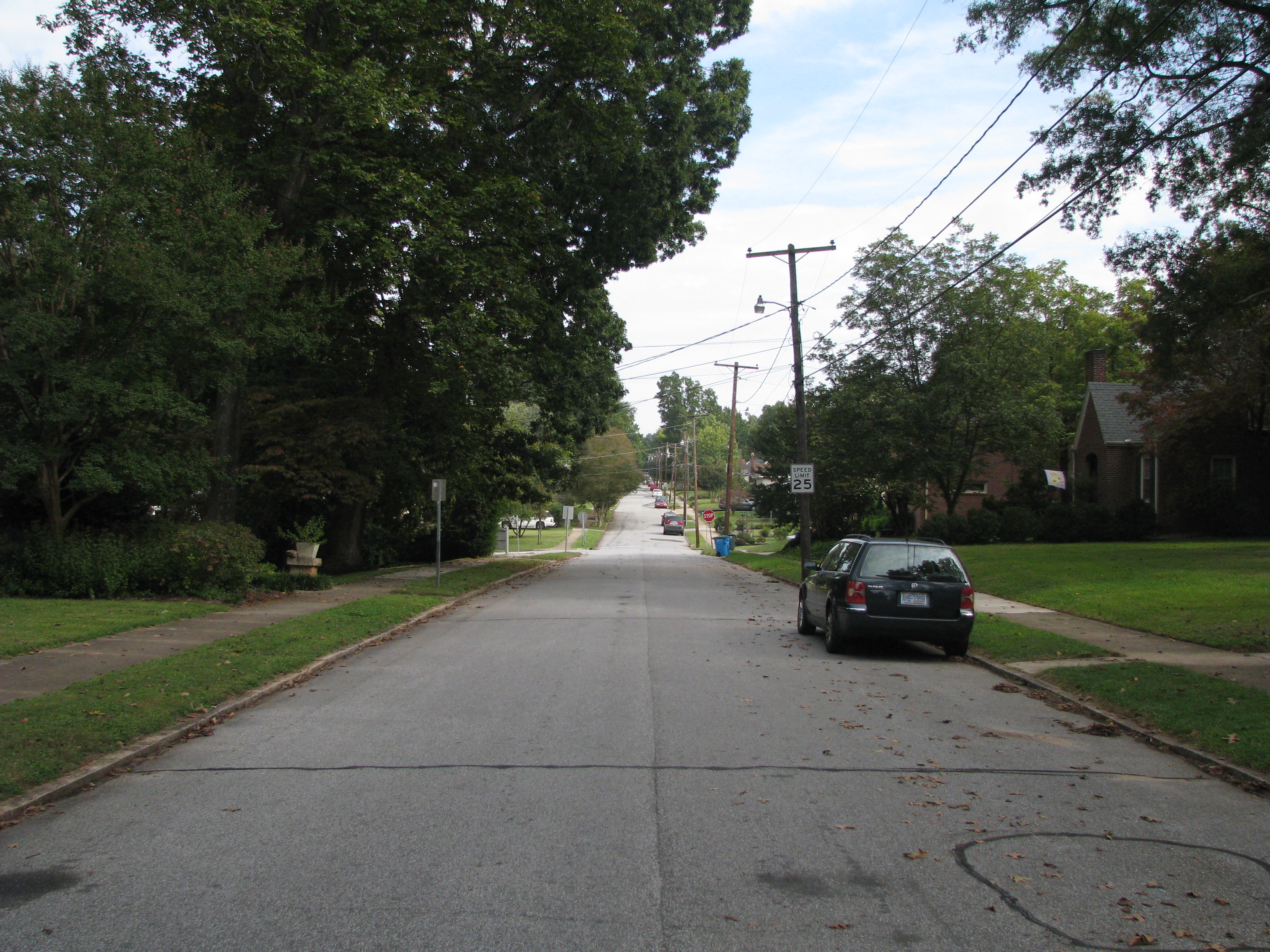 Fulton Heights Historic District